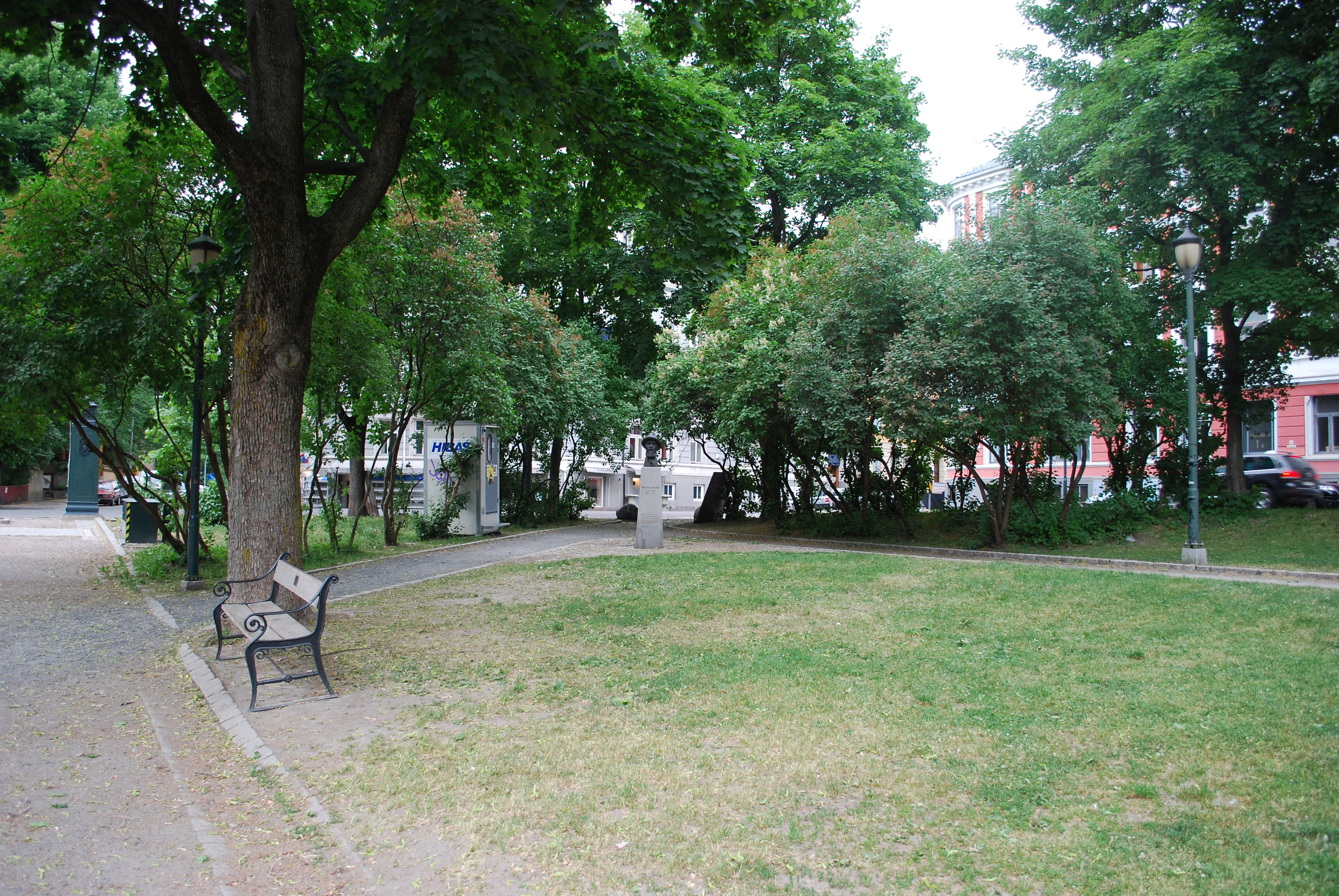 Amaldus Nielsens plass (square and park), Frogner, Oslo